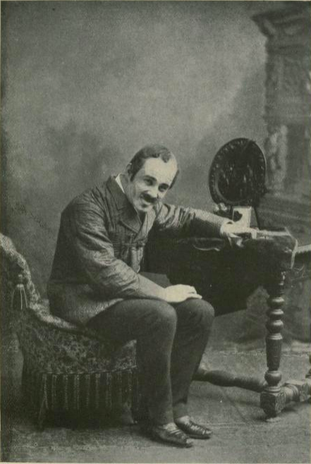 Actor Richard Mansfield in costume as Baron Chevrial from the play A Parisian Romance